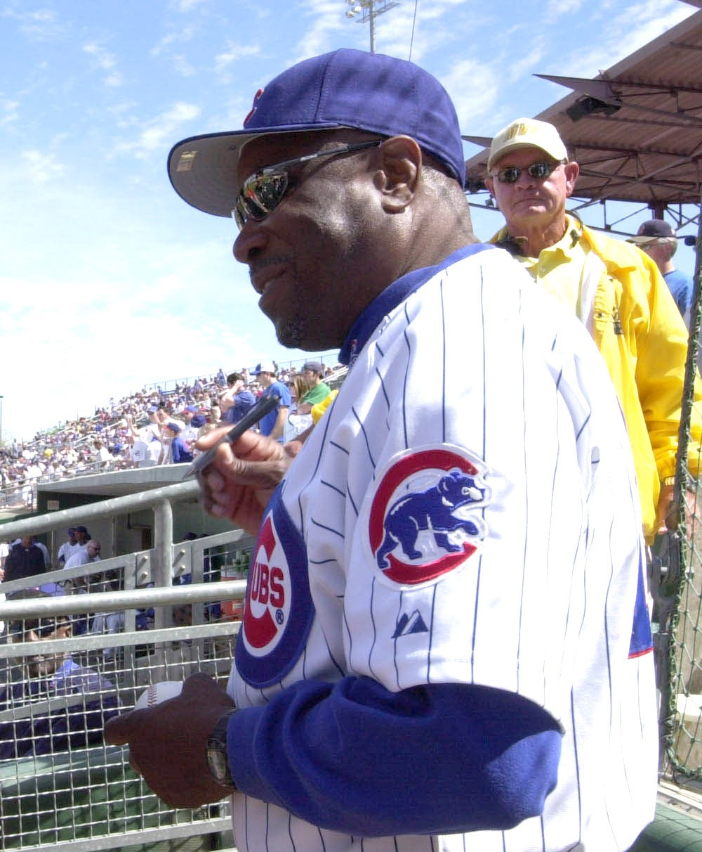 Chicago Cubs manager Dusty Baker during spring training in Arizona, 2006. Cropped from a U.S. Navy photograph.